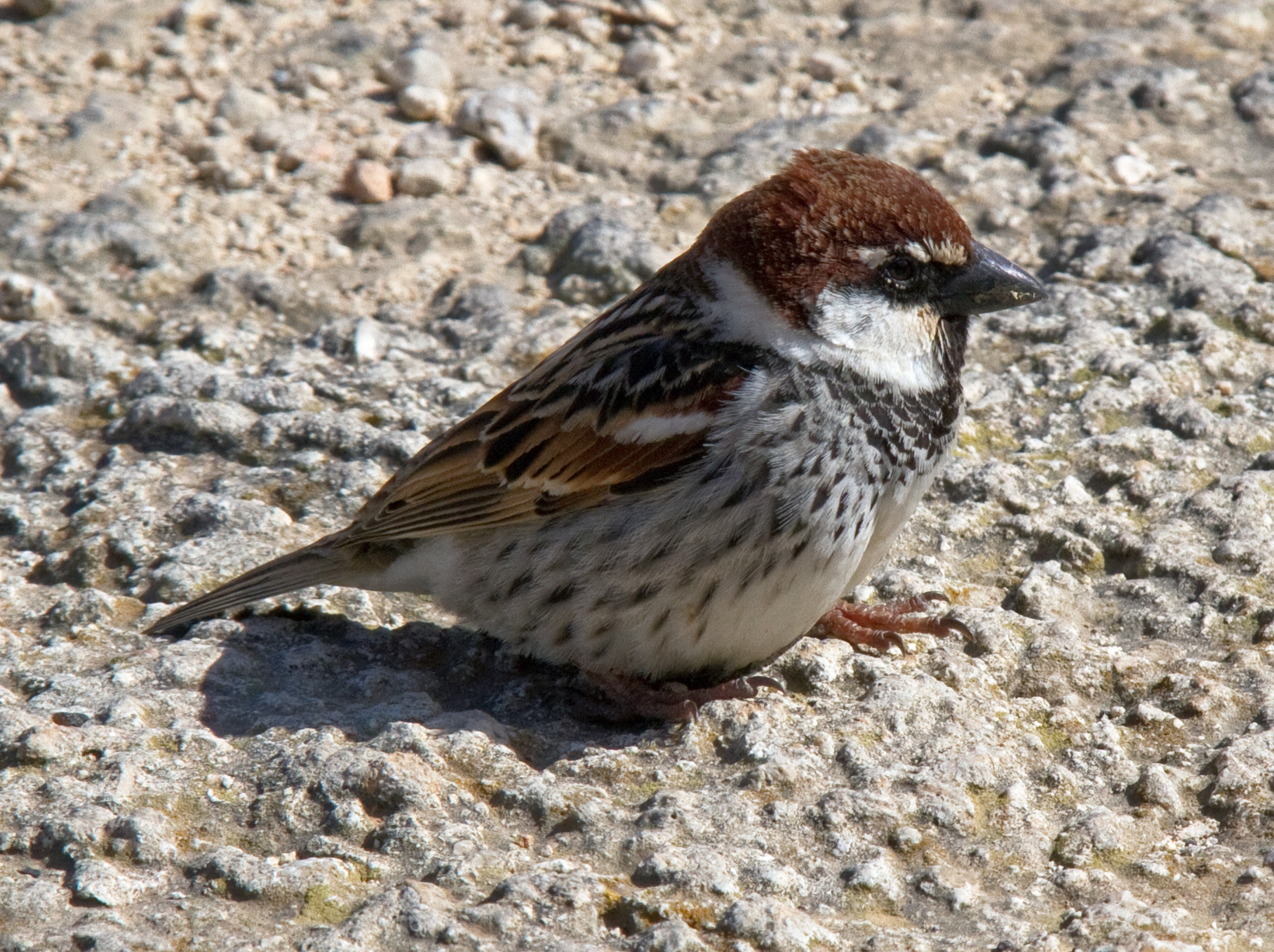 A male Spanish Sparrow in Malta (most likely a wintering Spanish Sparrow from outside Malta as it has a fully striped belly, but possibly an intermediate with the House Sparrow of some sort – see the English Wikipedia article Italian Sparrow).